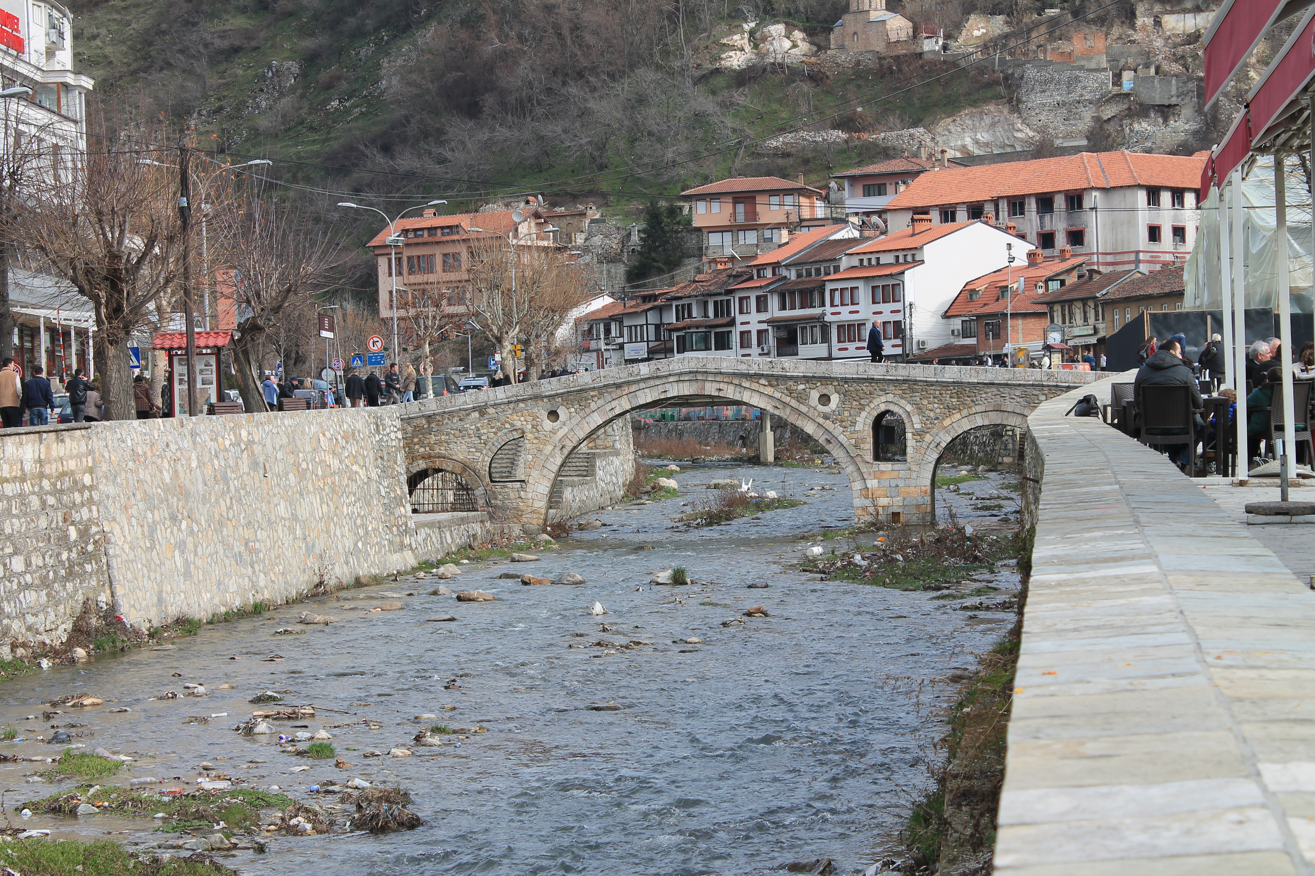 Nga ana tjetër